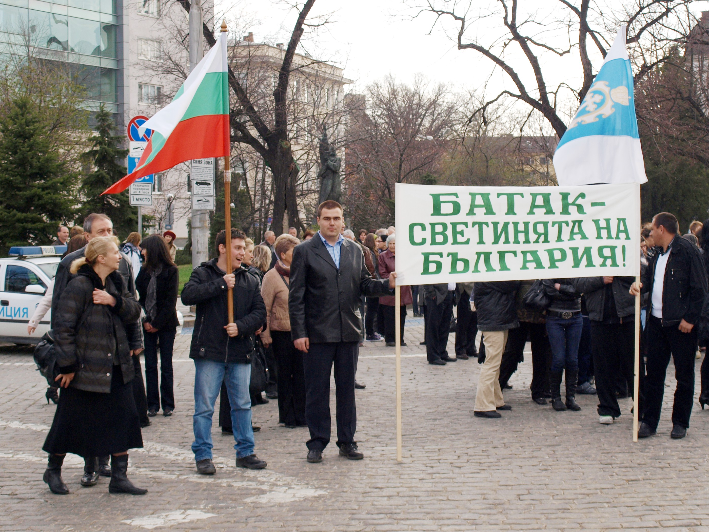 People from Batak in front of the Saint Alexander Nevsky Cathedral in Sofia at the canonization of the Saint Martyrs from Batak. The transparant says: Batak - a holy place of Bulgaria.